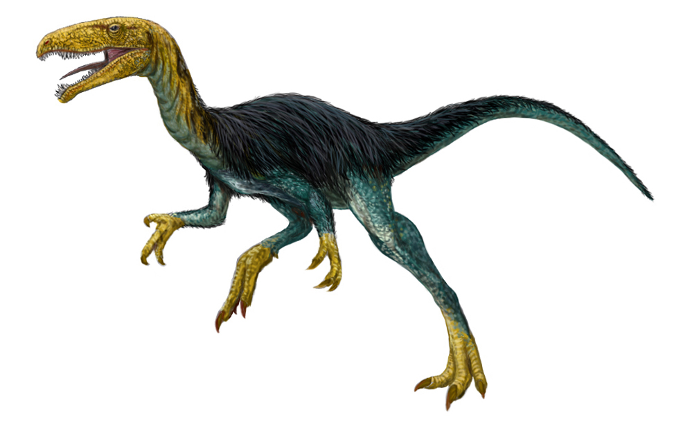 Velocisaurus unicus life restoration. Based on figures of skeletal remains[1] and skeletal reconstructions of related genera.